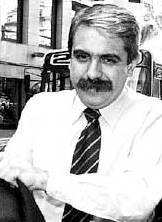 Aníbal Fernández, Argentine Goverment Chief of Staff.